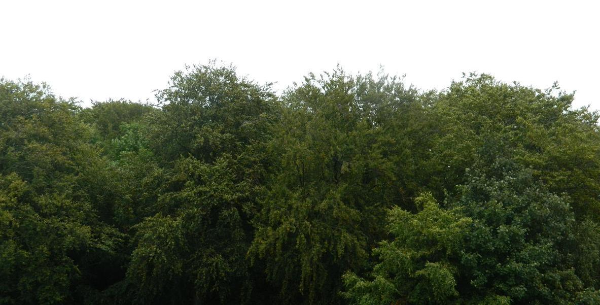 Karlslund Beech forest, Landskrona, western edge